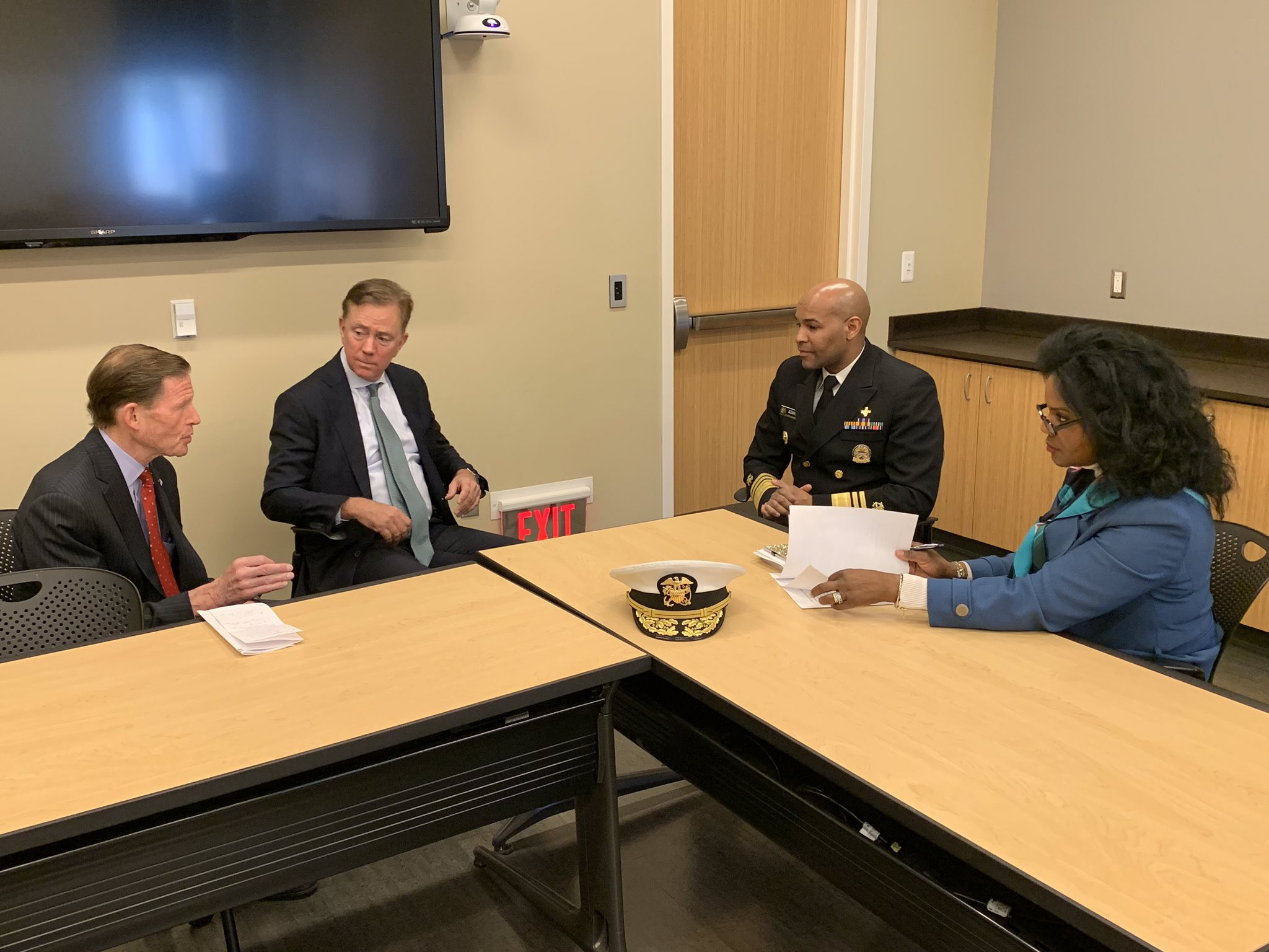 Meeting with @SenBlumenthal, @GovNedLamont & @CTDPH state health commissioner this morning to talk about federal and state pareparedness and response efforts around #COVID19.